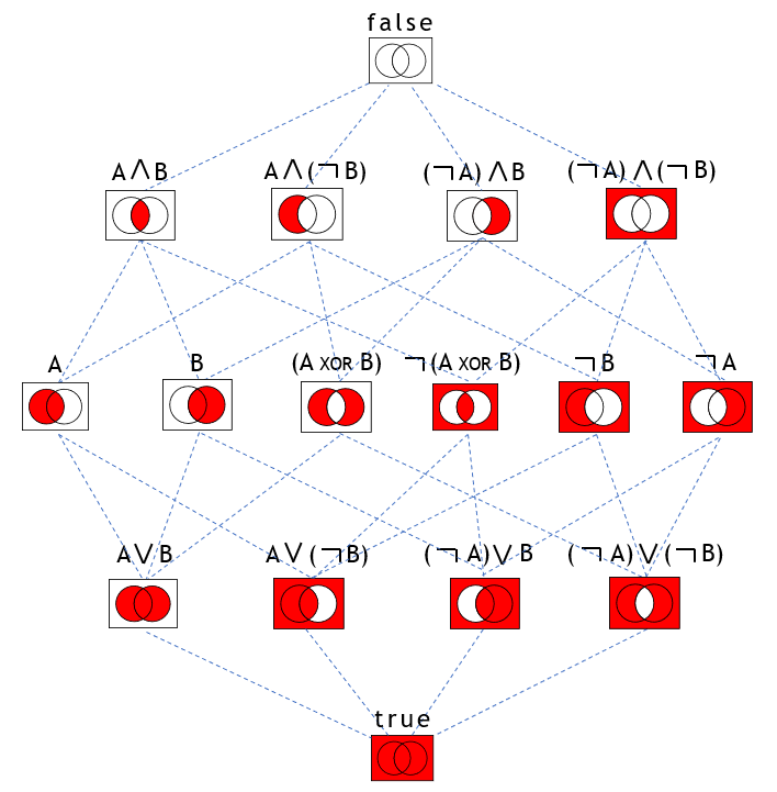 Boolean functions of two variables - Eng - version04